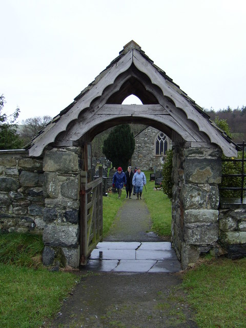 Llanegryn Church Lych gate. Apparently, the purpose of a lych gate is to shelter the dead on the way to burial while waiting for the clergyman.